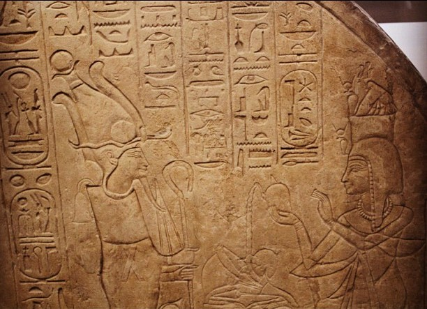 Day 28 - Stela of Isis, Daughter of Ramesses VI